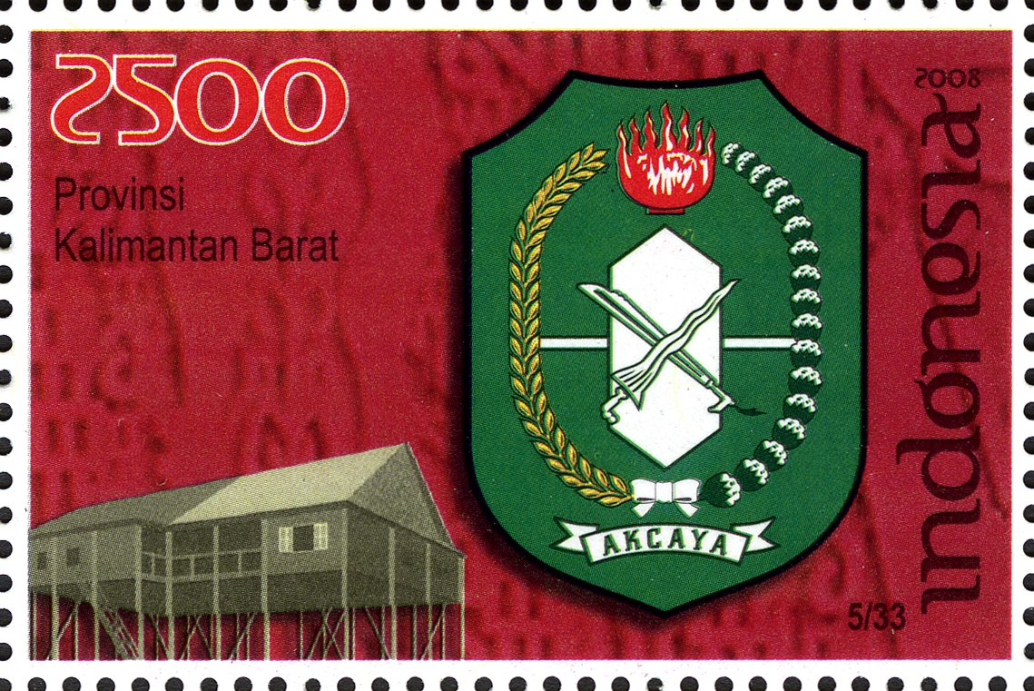 Stamps of Indonesia